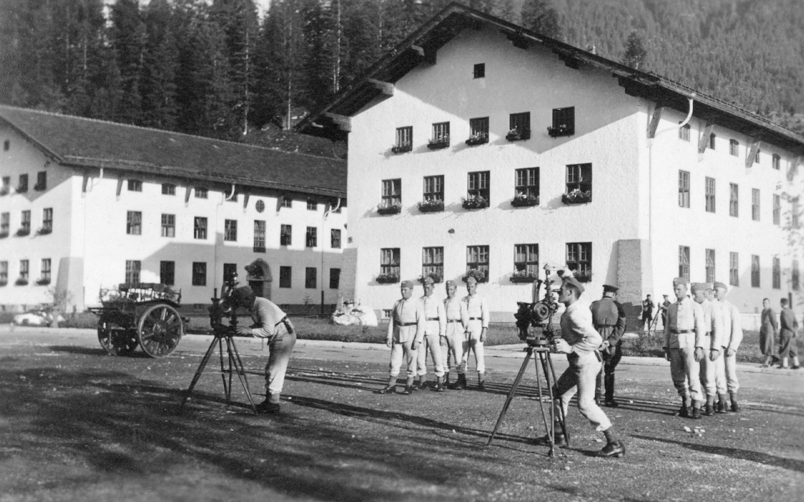 The exact date and place is unknown. Picture was taken by my grandfather.